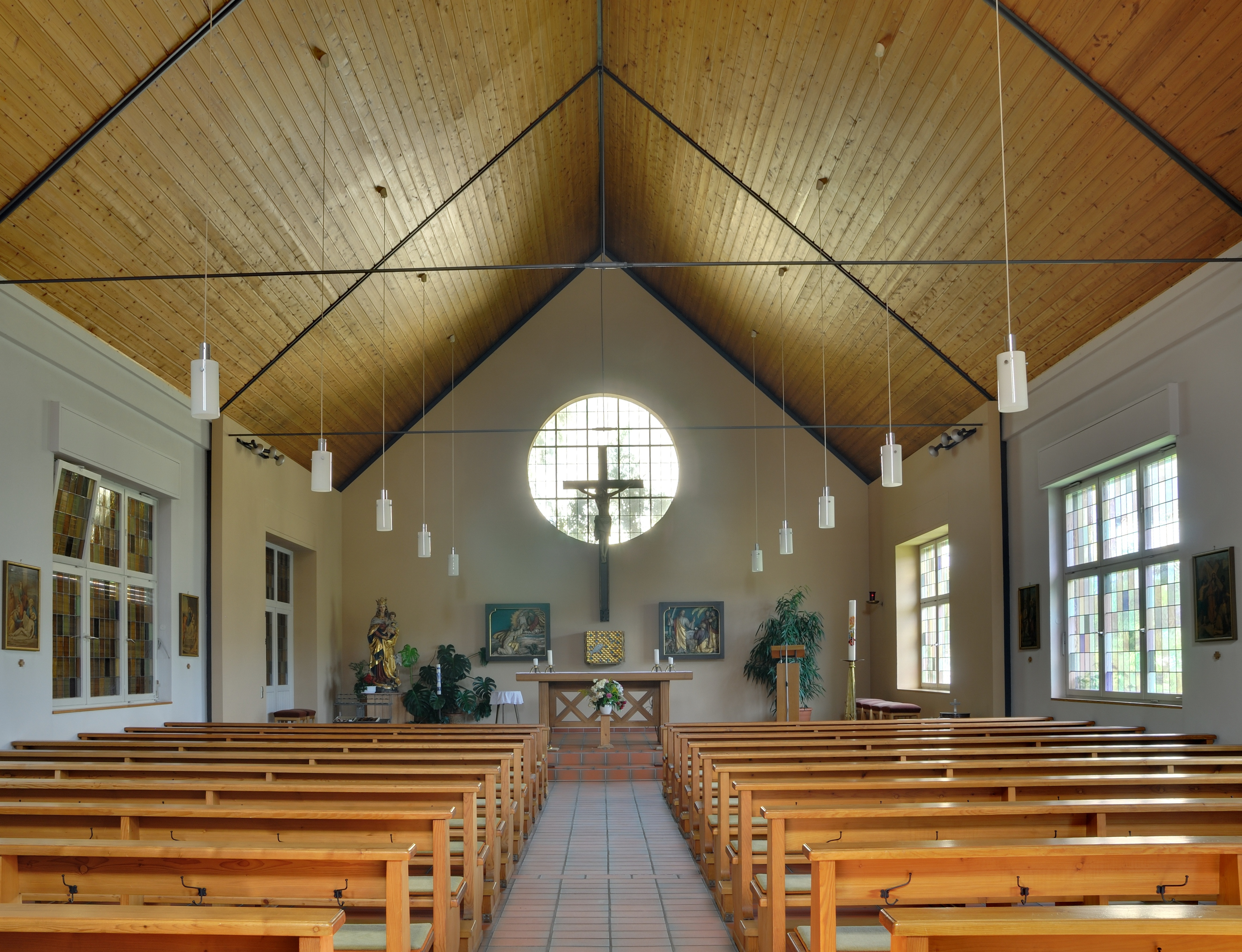 Schopfheim-Fahrnau: Catholic Church